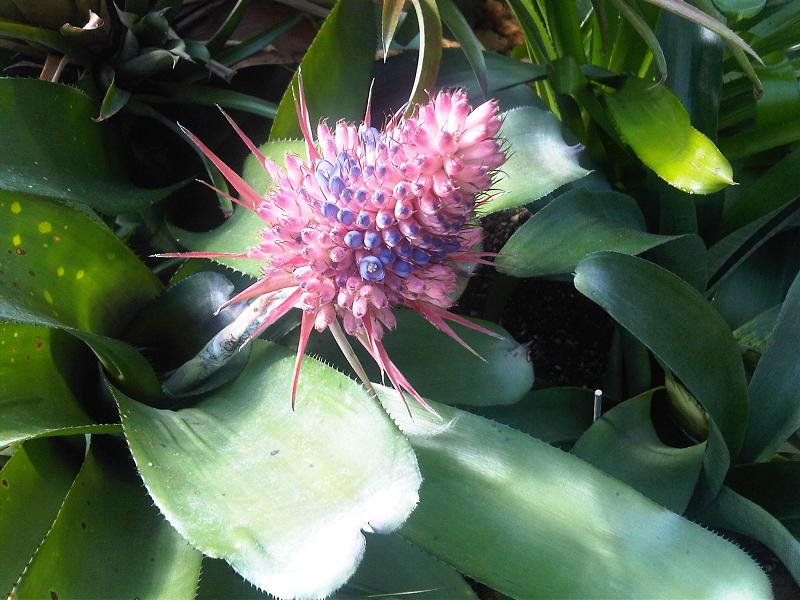 Silver-Vase, or Urn Plant (Aechmea fasciata) inflorescence in Kew Gardens, England.